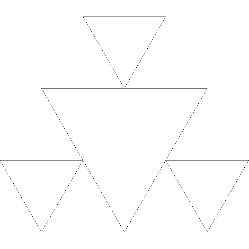 S3 Sierpinski L1 All